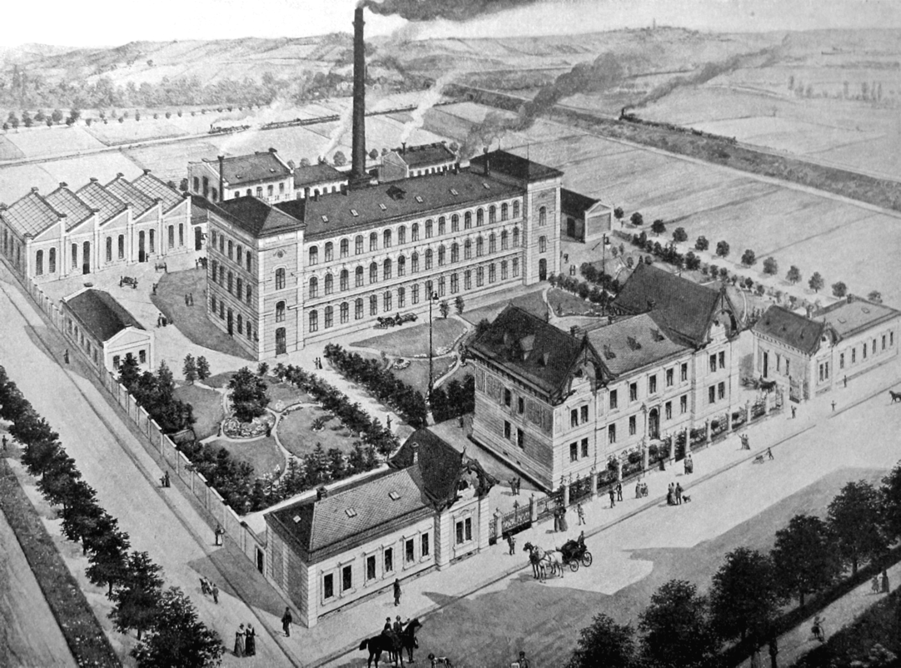 P. Ladstätter & Söhne’s factory in Prague, Lieben 1898.